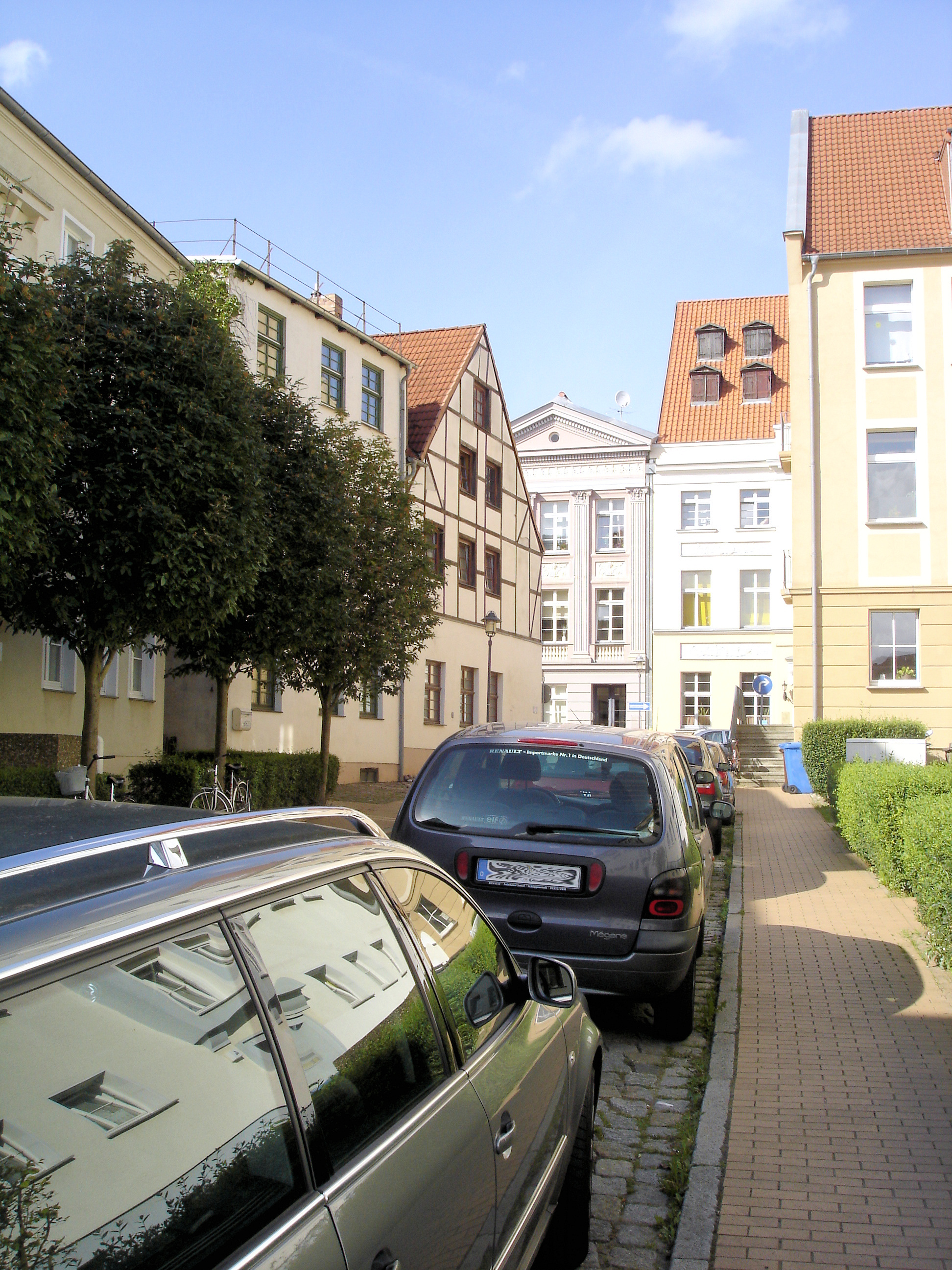 Street in the historic city of Rostock